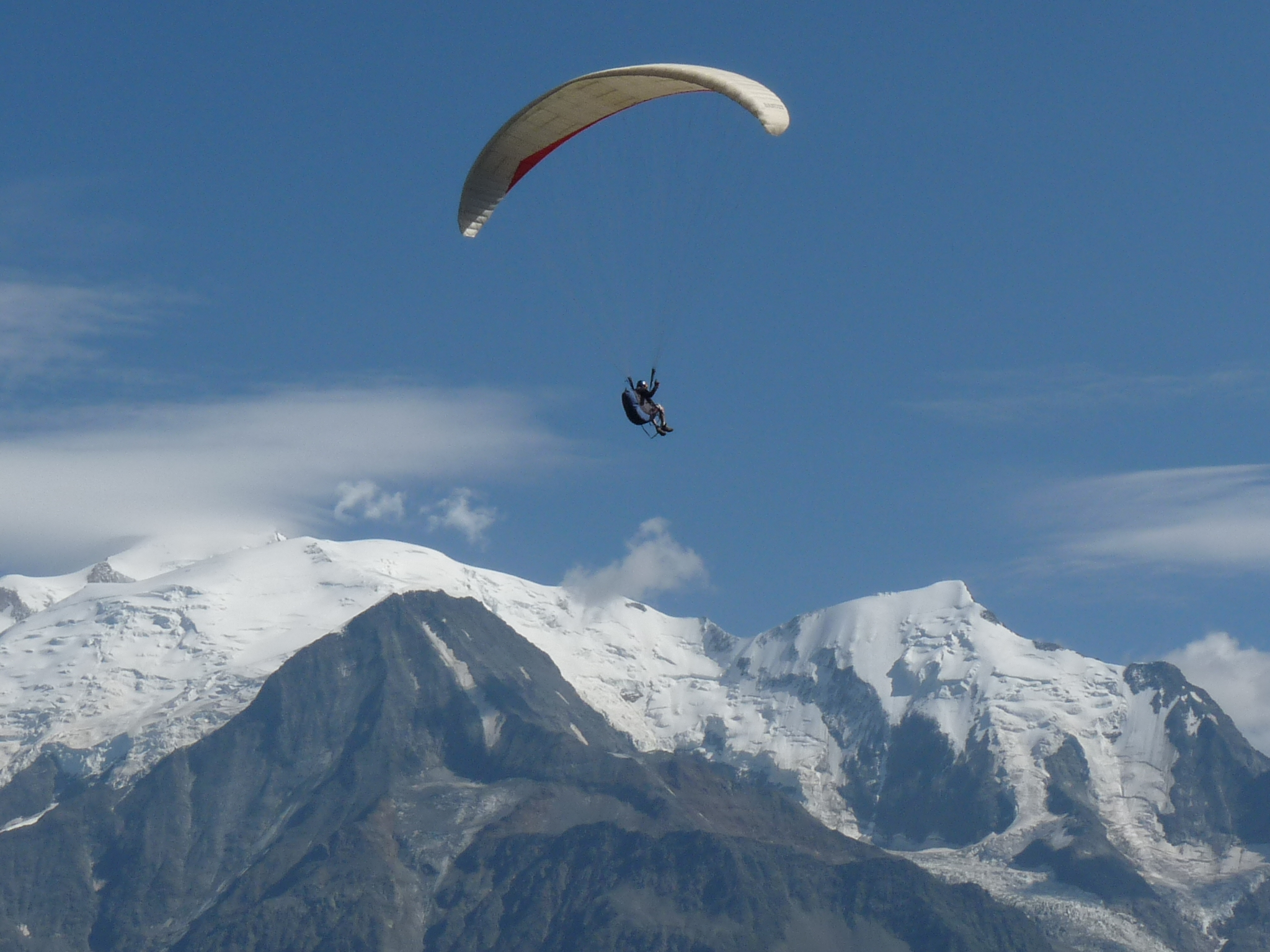 A paraglider in flight in front of the Mont Blanc massif, France.